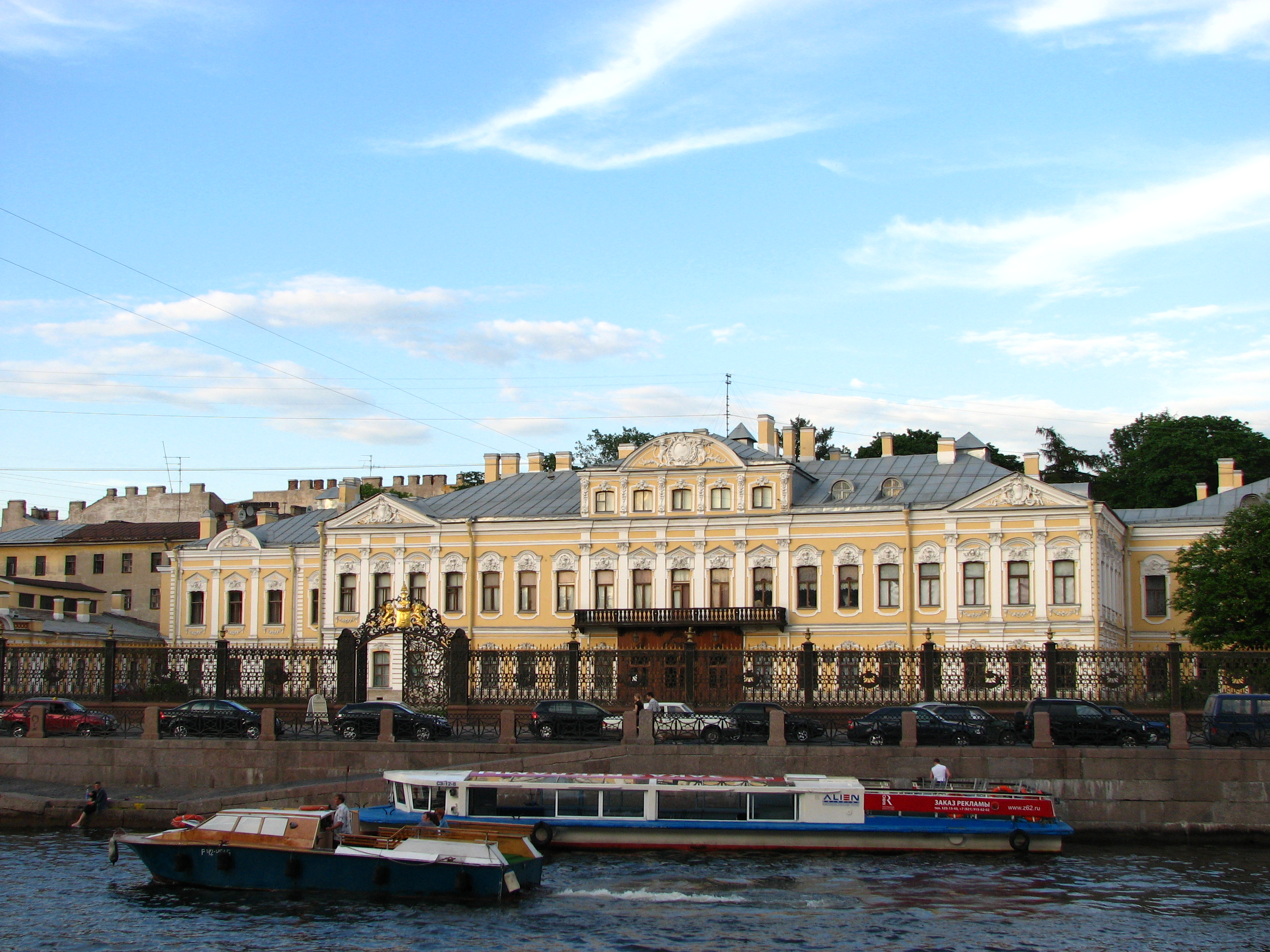 Saint Petersburg. Sheremetev Palace (Fontanny Home).